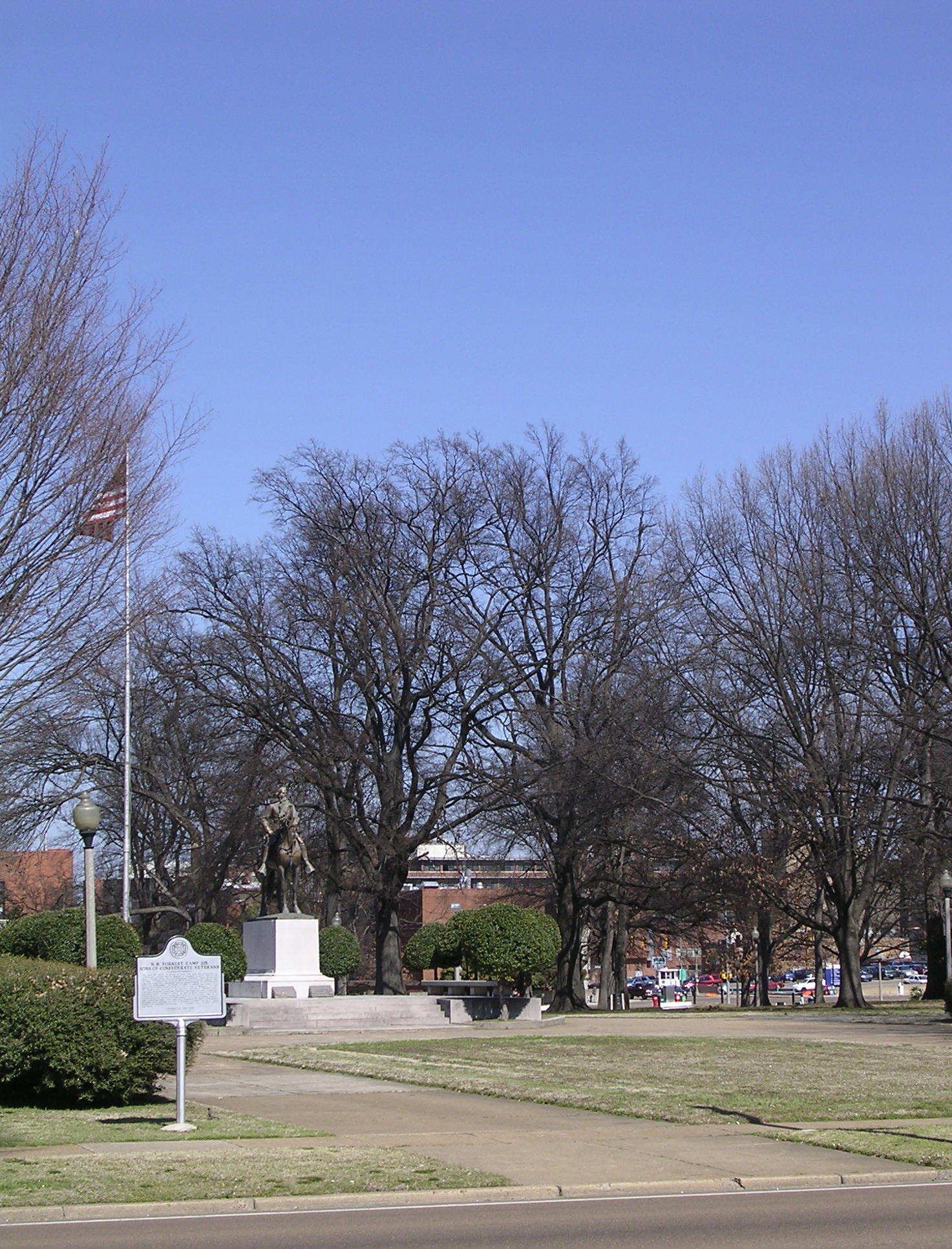 Nathan Bedford Forrest Memphis, Tennessee July 14,2015 Source: Photo taken by user:Lisa M Friedrichs